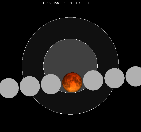 Lunar eclipse chart of moon's path through the earth's shadow. thumb